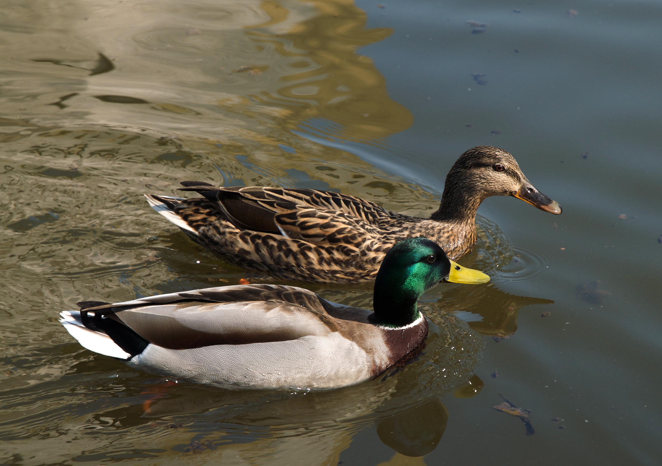 Mallard (Anas platyrhynchos), Chemnitz, Germany